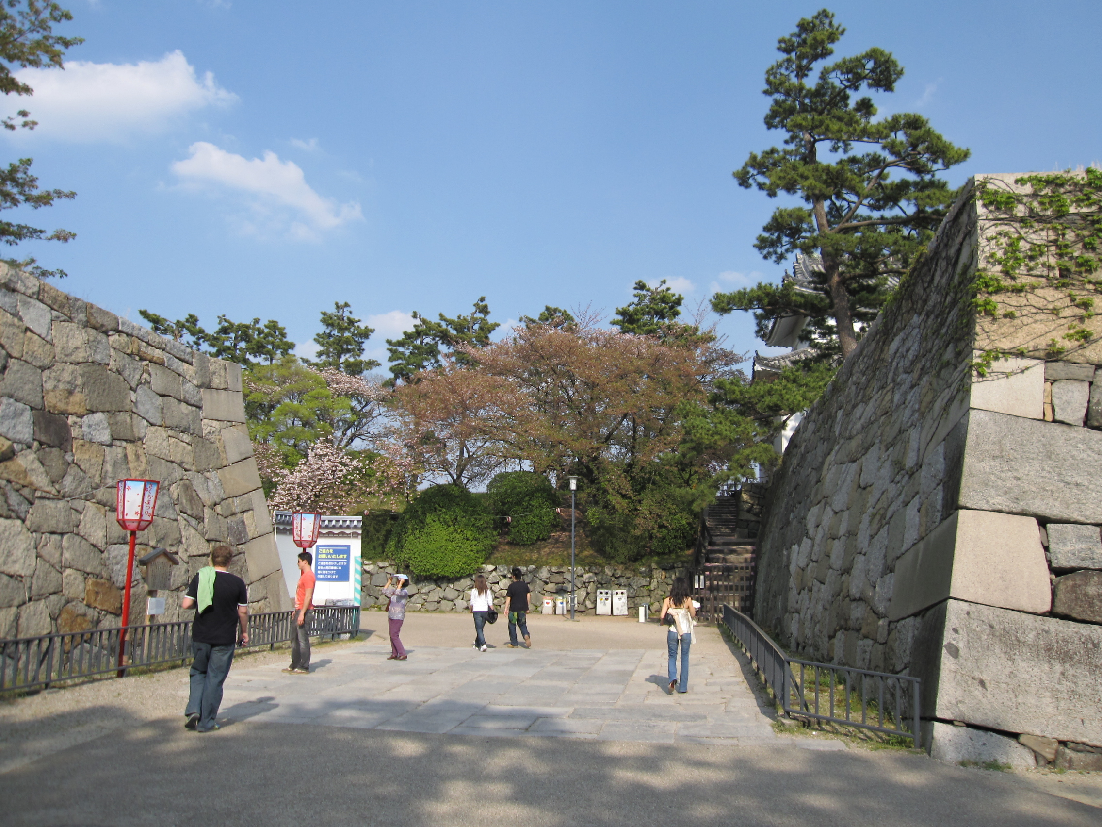 Destroyed in World War II, the First Front Gate of Nagoya Castle formed a square shape with the Second Front Gate, and had a smaller gate on the side with a gabled and tiled roof. The wall section under the front part of the gate was covered in wooden tiles, and the gate itself was iron plated and rocks could be dropped from a second-storey machicolation. The door on the smaller gate was latticed for reinforcement.